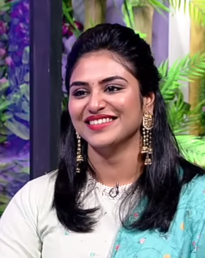 Indhuja in an interview with Puthuyugam TV in 2019